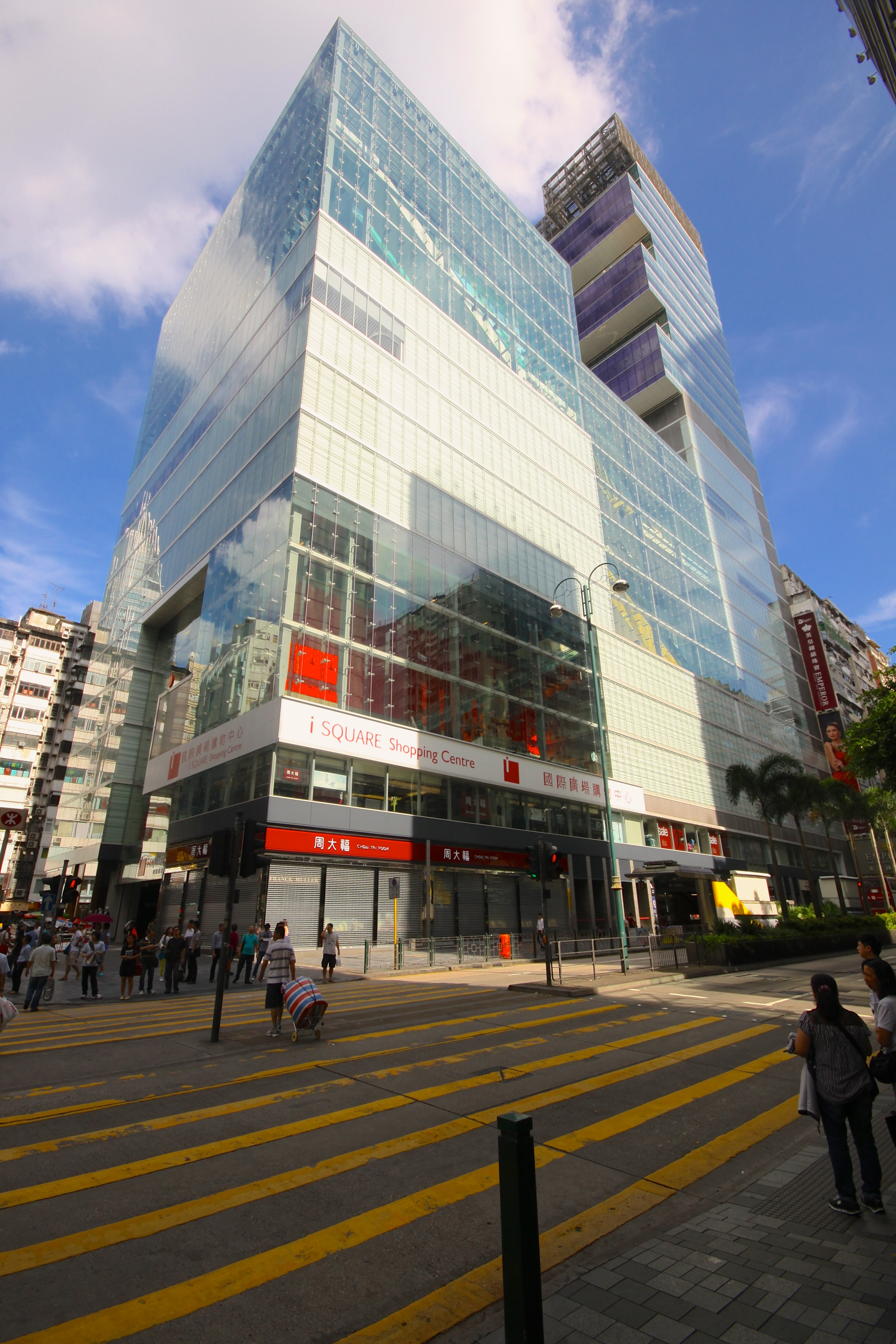 Nathan Road, Tsim Sha Tsui